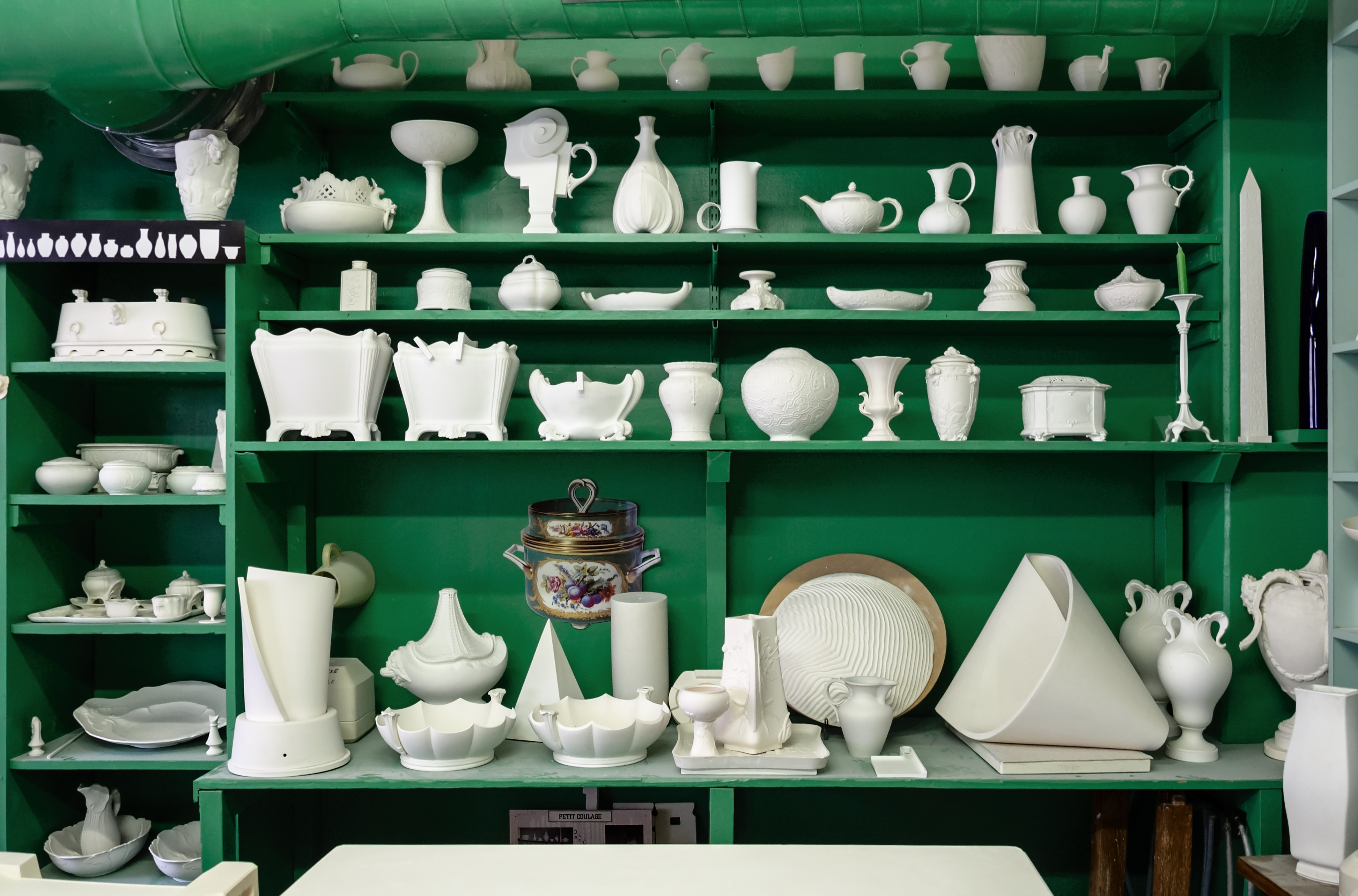 Sample of the production of the small-scale casting (slipcasting) workshop of the manufacture nationale de Sèvres.